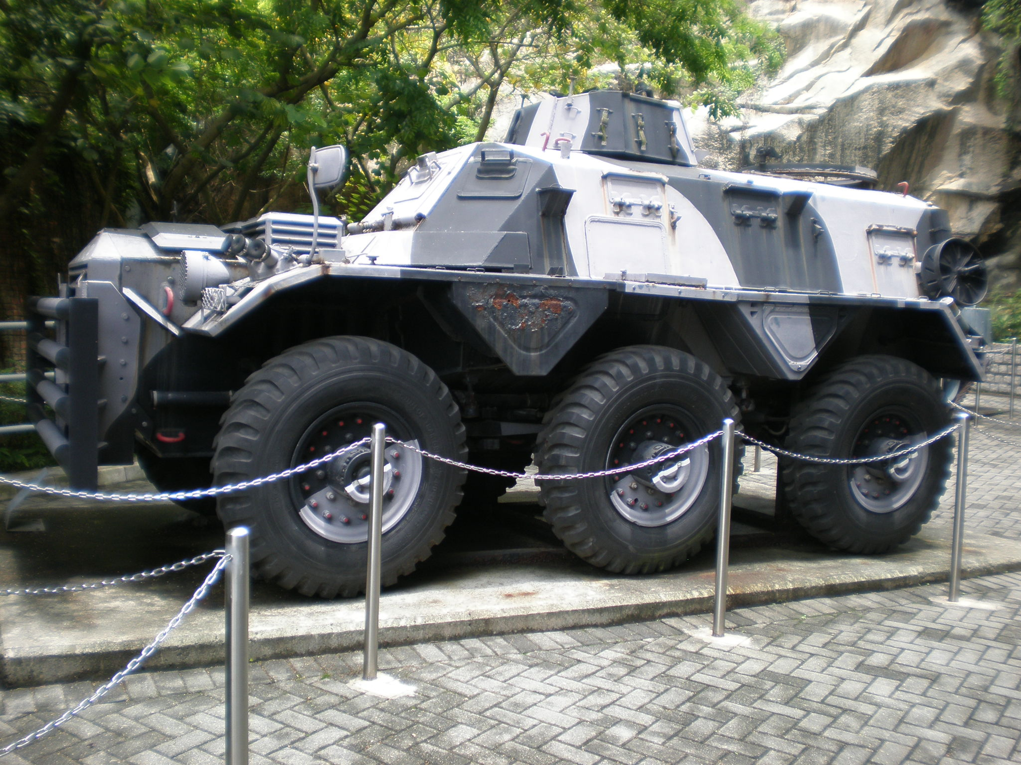 An Alvis Saracen Mk 2 armored personnel carrier originally belonging to the Royal Hong Kong Regiment. On display at the Hong Kong Museum of Coastal Defence.